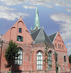 Johannes a Lasco Bibliothek Emden